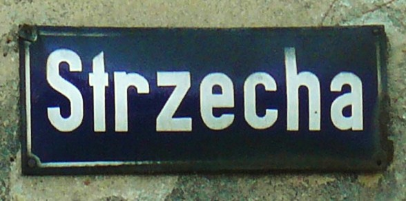 Poznan, Strzecha Street.